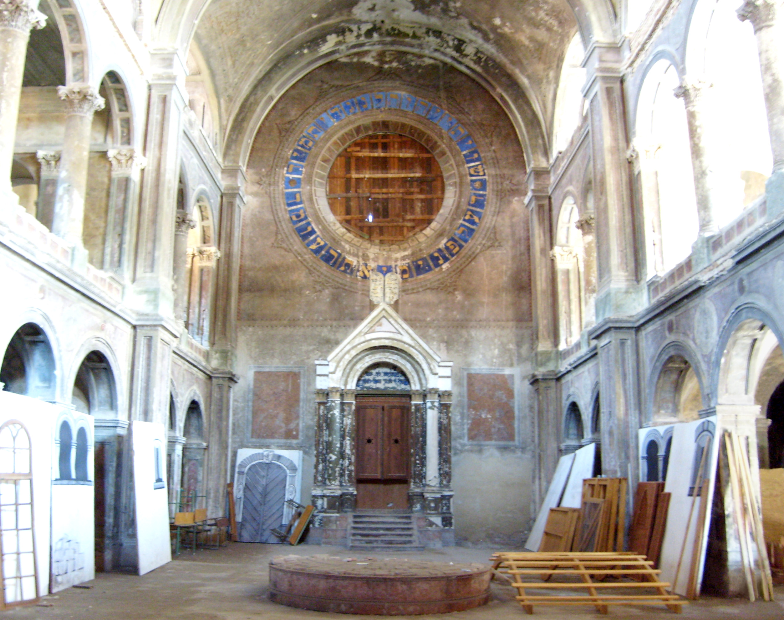 The inside of the synagogue of Pápa, Hungary.